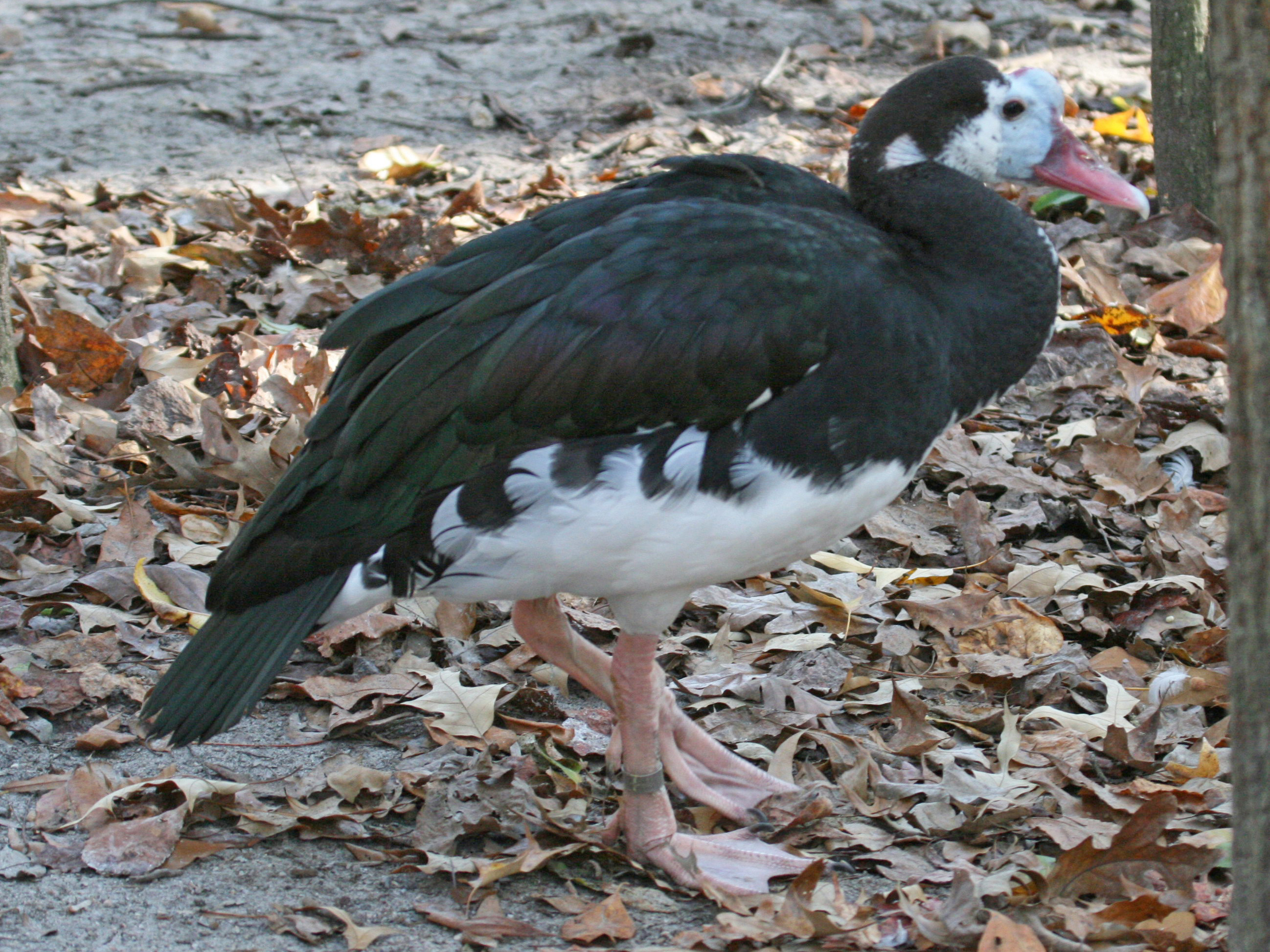 Spur-winged Goose (Plectropterus gambensis) at Sylvan Heights Waterfowl Park in Scotland Neck, North Carolina.